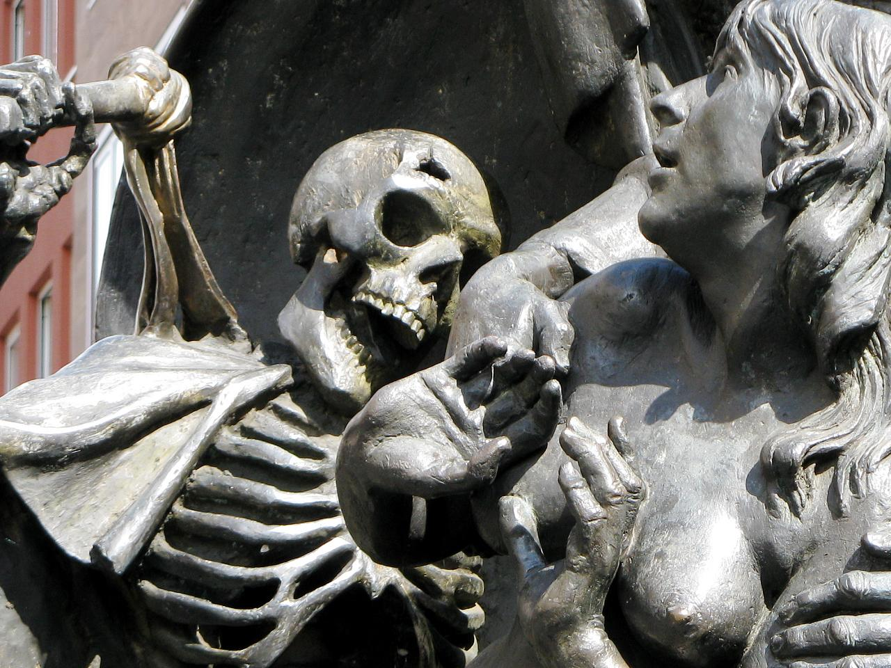 Das Narrenschiff sculpture by Jürgen Weber in Nürnberg, Germany, based on the novel of the same name.